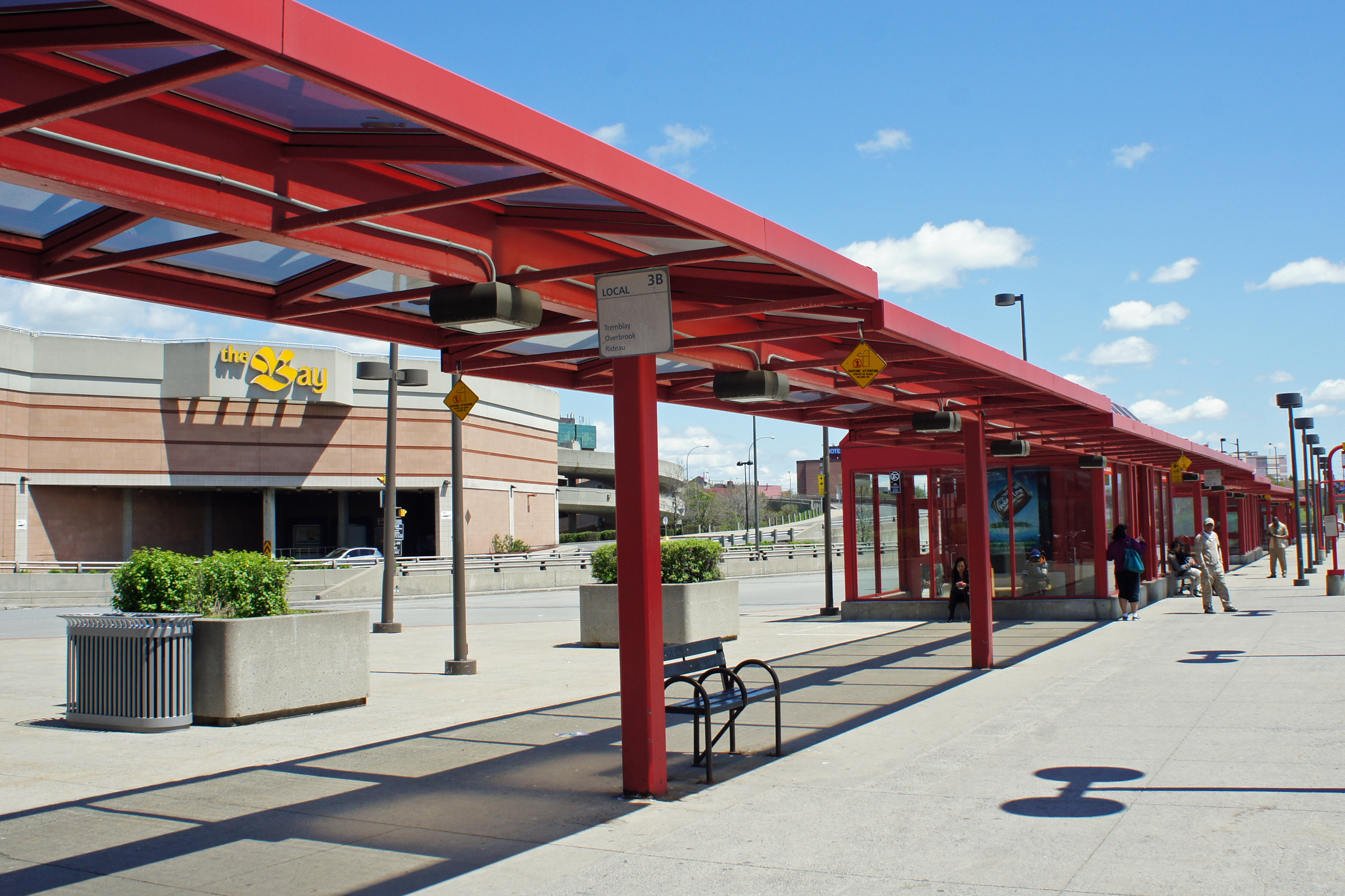 St. Laurent OC station, OC Transpo BRT, Ottaa